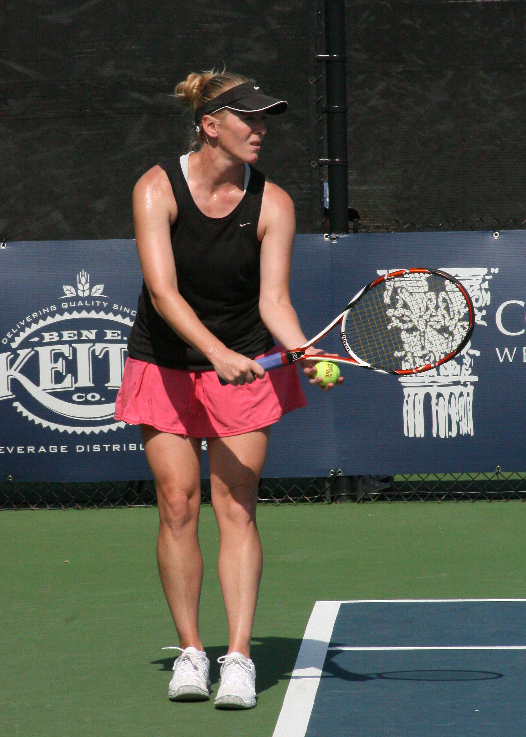 Lindsay Lee-Waters, Grapevine (Texas)